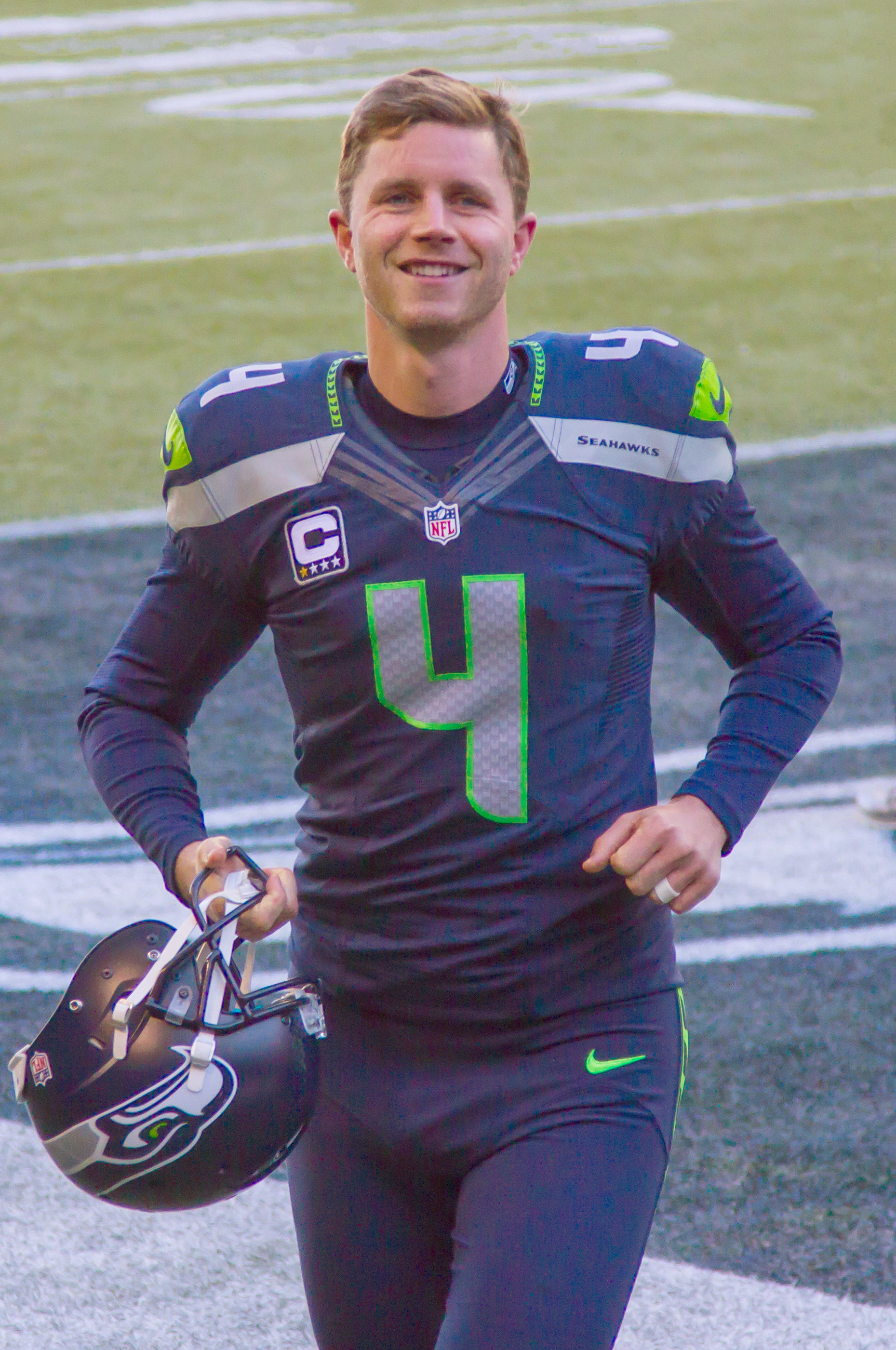 49ers at Seahawks 2014